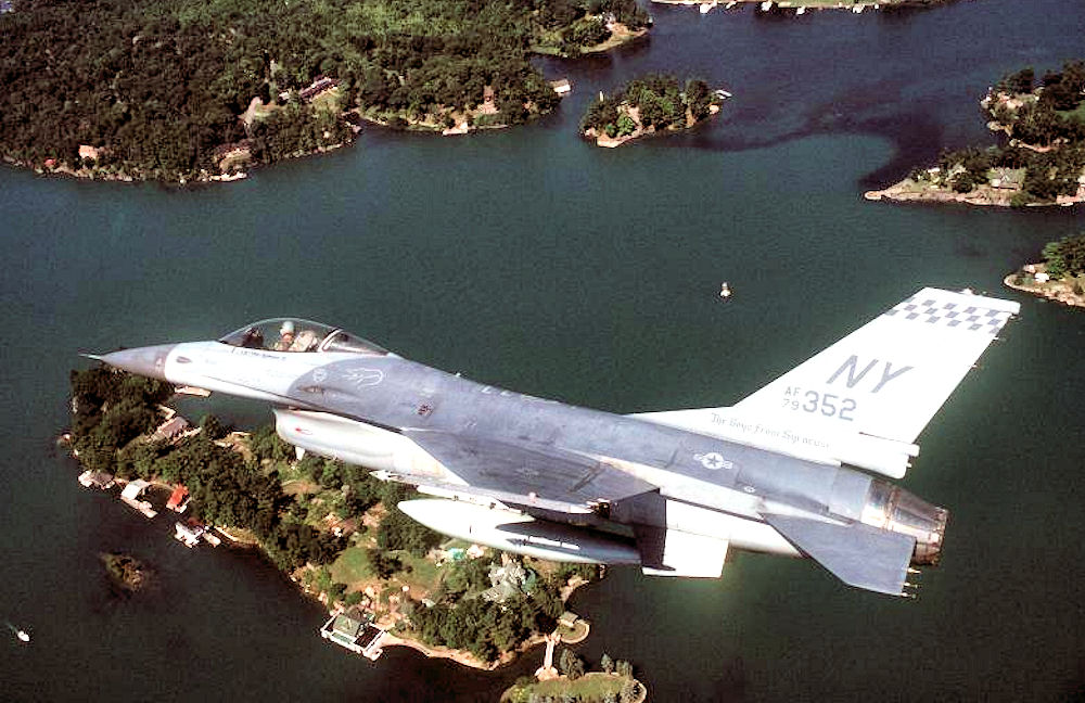 USAF F-16A block 10 #79-0352 from the 138th TFS flies over a section of upper New York State on July 1st, 1991. The aircraft belongs to the New York ANG and is specially equipped for close air support. [USAF photo by TSgt Michael Haggerty]